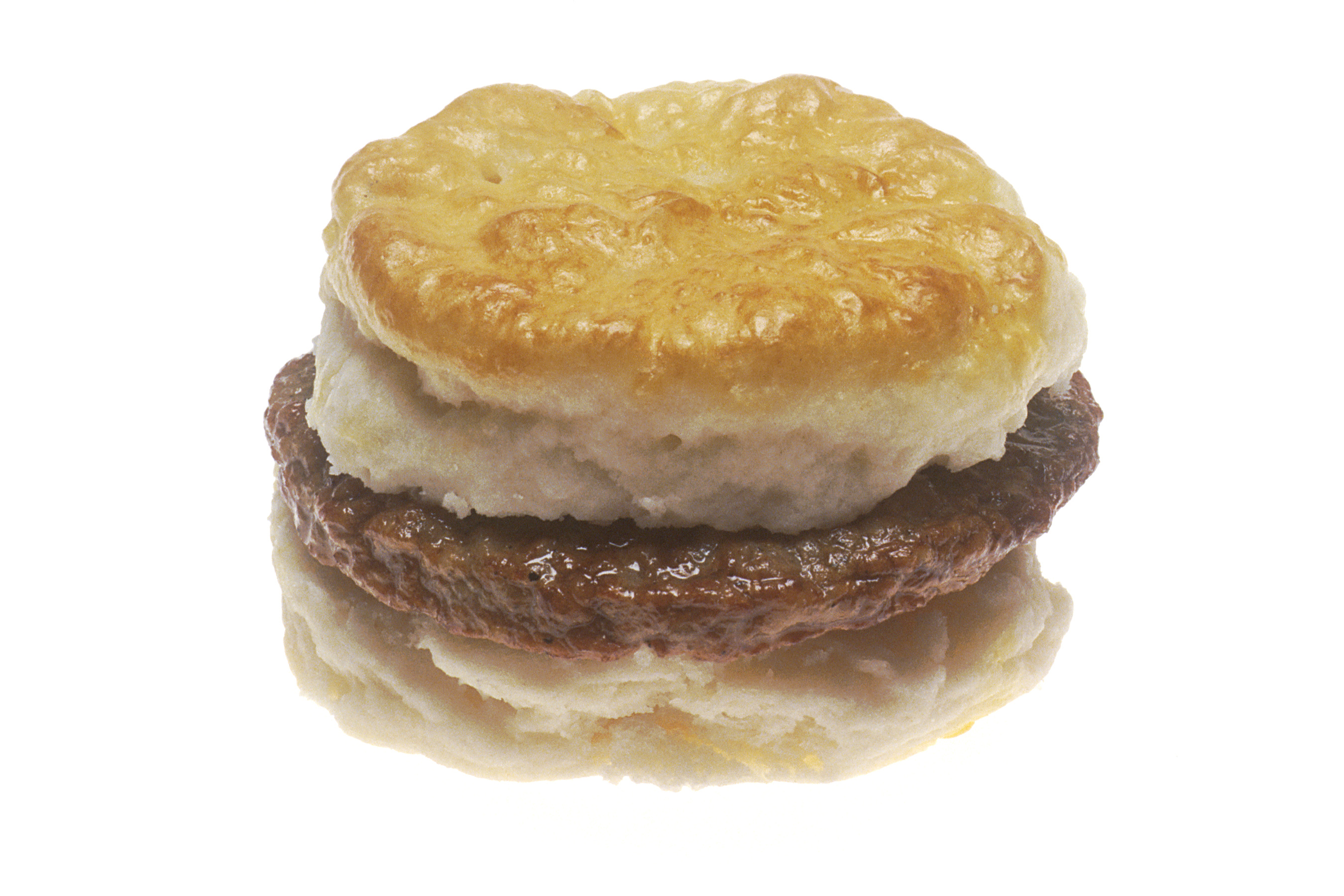 Title Sausage Biscuit Description One sausage biscuit. Topics/Categories Food and Drink Type Color, Photo Source National Cancer Institute